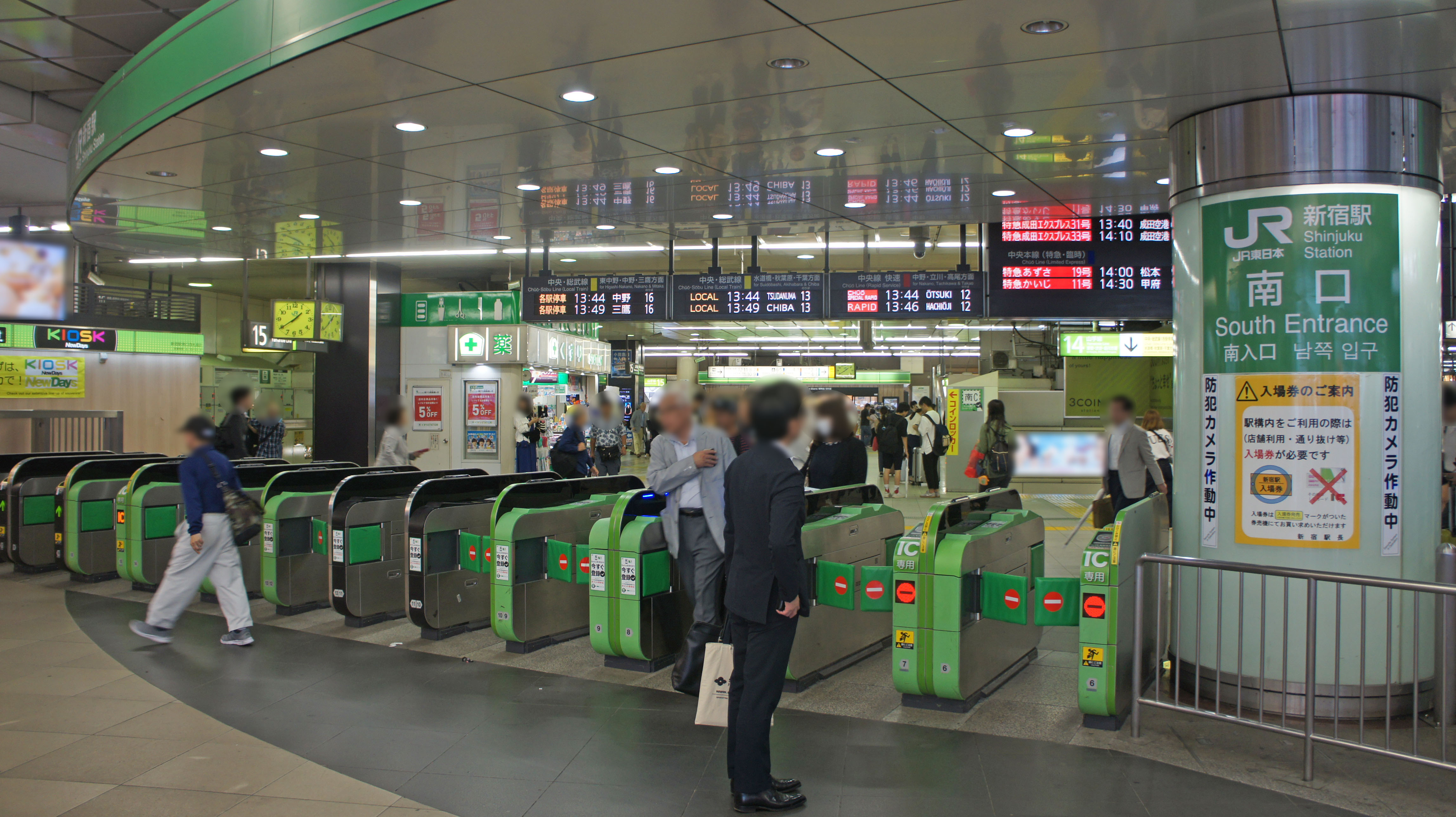 South Gates of JR Shinjuku Station